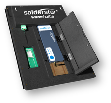 A wave soldering machine analyzer from Solderstar which utilizes a thermal profiling datalogger and special sensors to capture all key process parameters